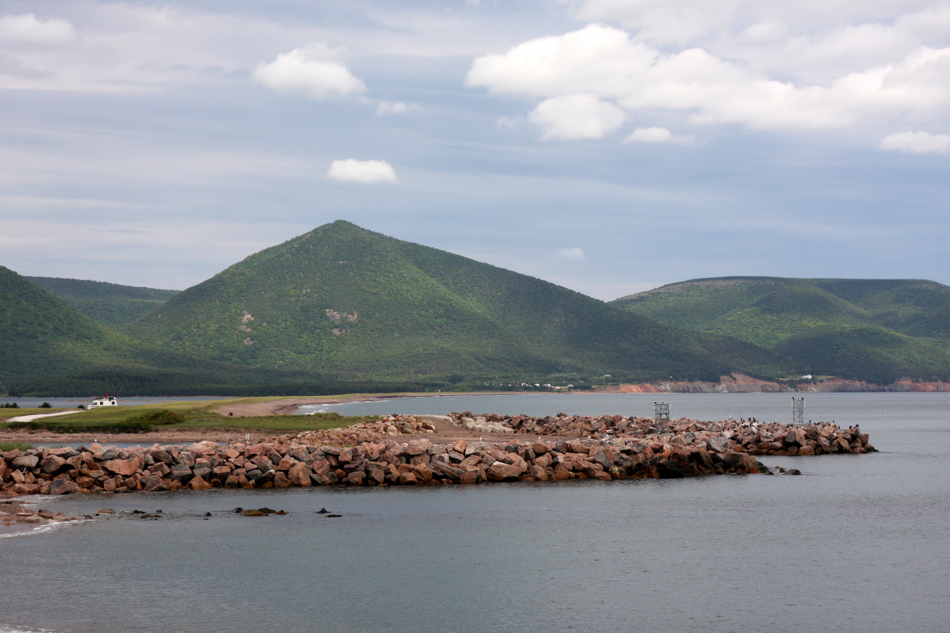 A view of Wilkie Sugar Loaf Mountain, part of the Cape Breton Highlands in Victoria County, Cape Breton Island, Nova Scotia, Canada from the entrance to Dingwall Harbour in Aspy Bay.